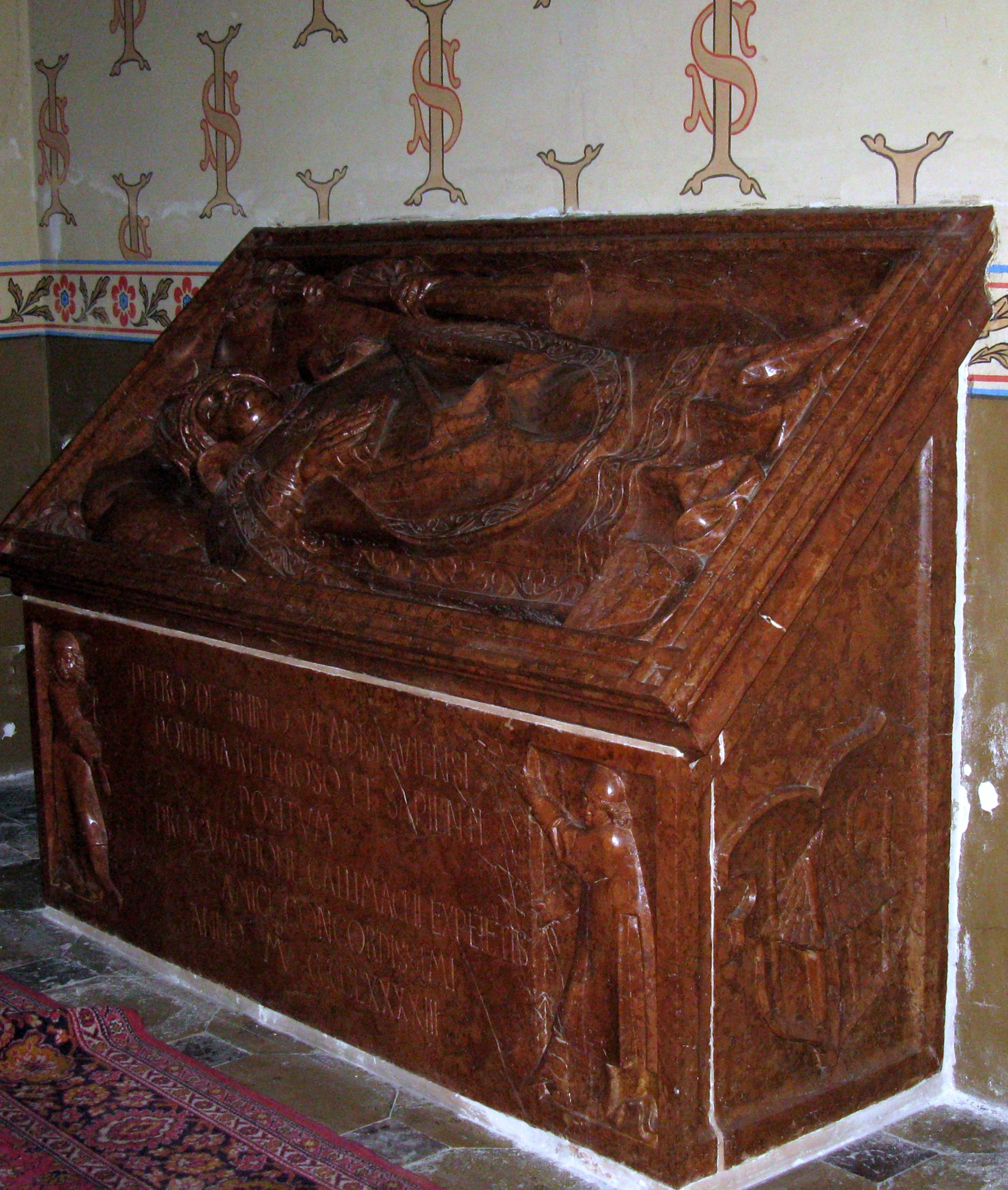 Tomb effigy of Bishop Piotr z Bnina by Veit Stoss